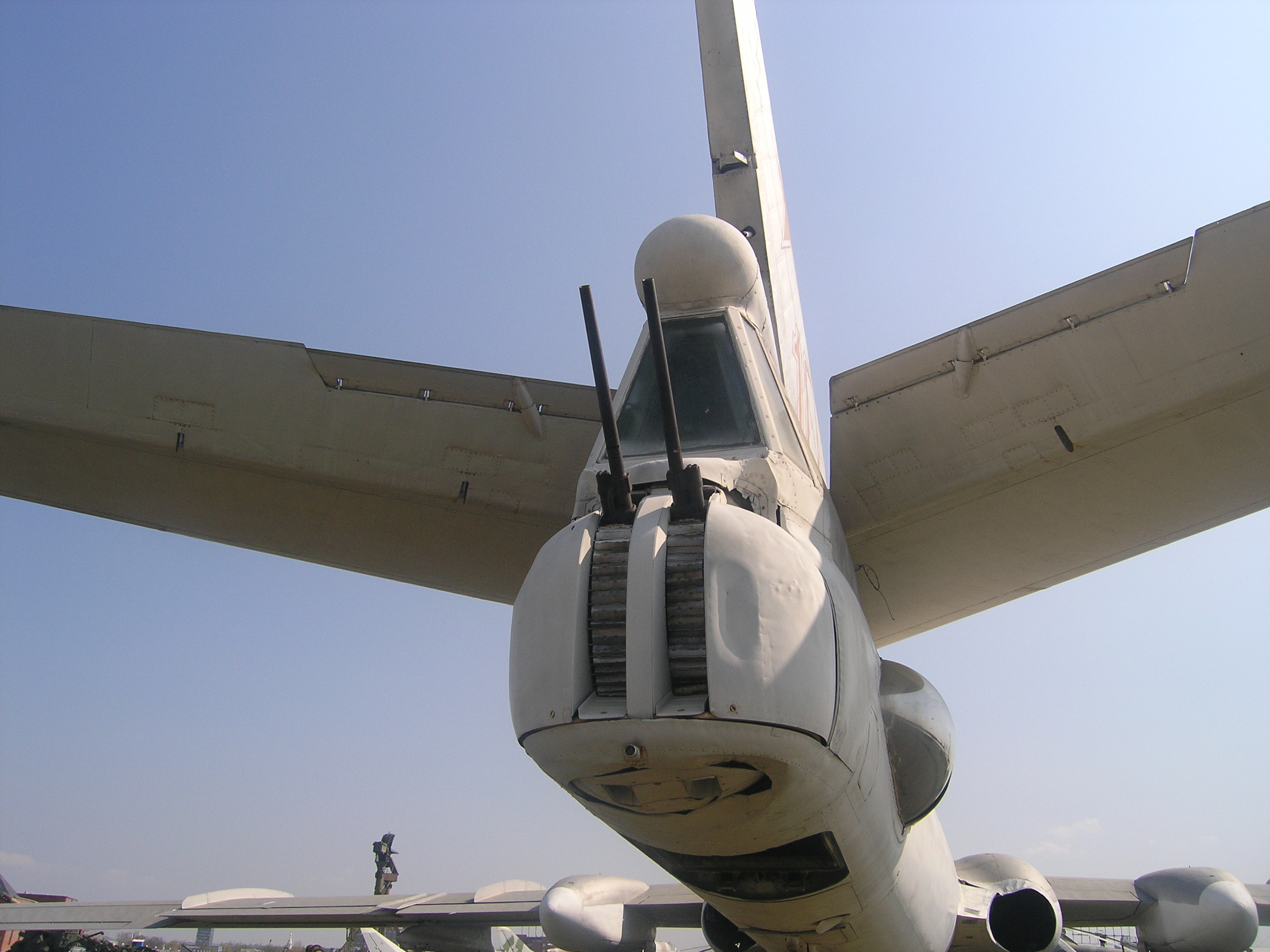 Tu-16, technical museum, Togliatti, Russia